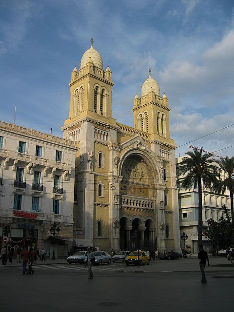 One of the few churches in Tunis.